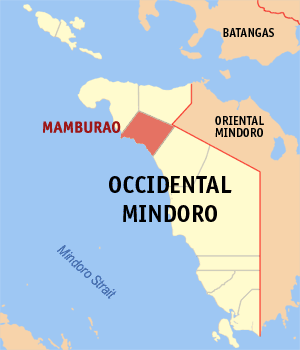 Map of Occidental Mindoro showing the location of Mamburao